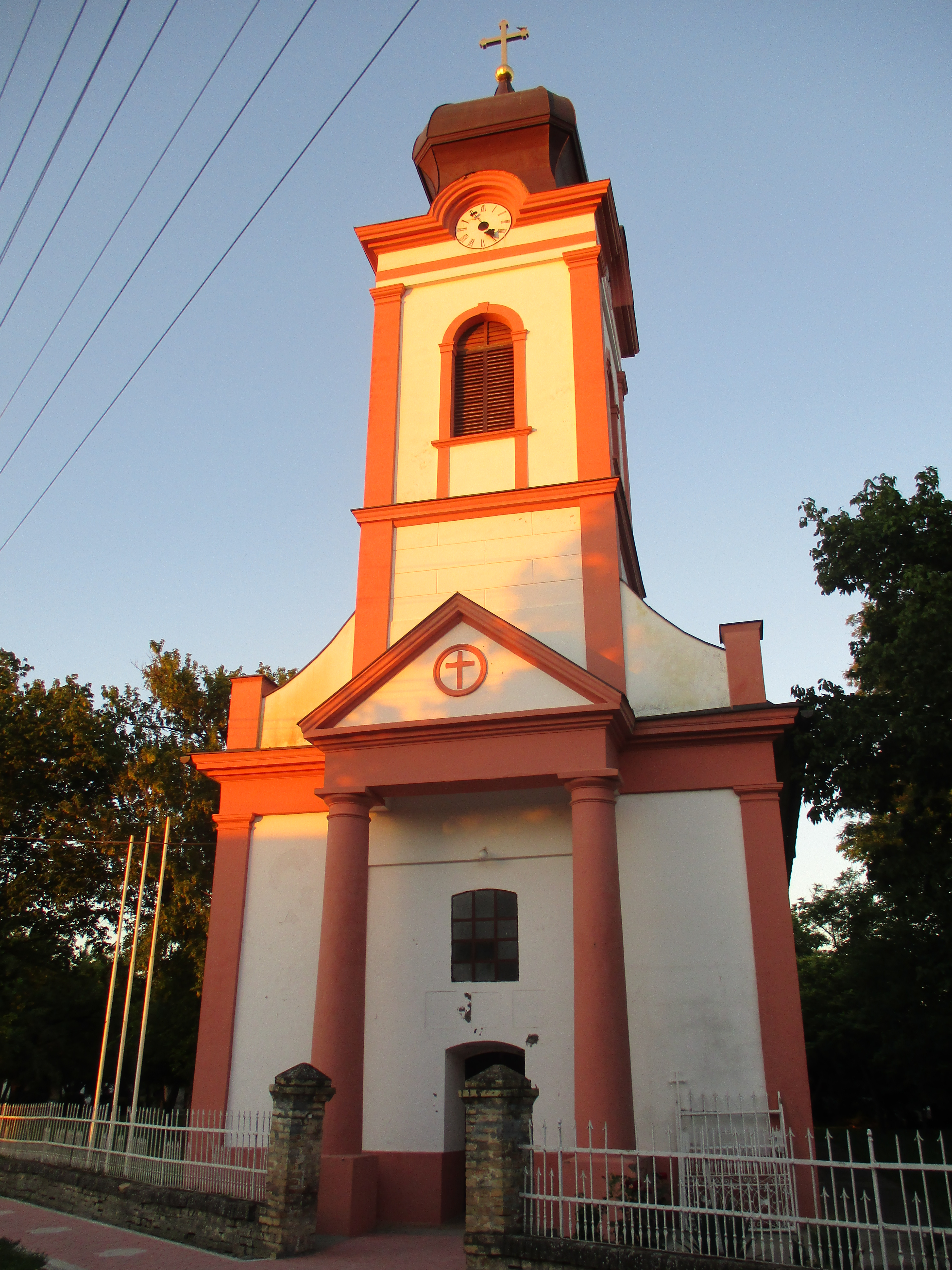 Orthodox church in Srpska Crnja, dedicated to Saint Procopius